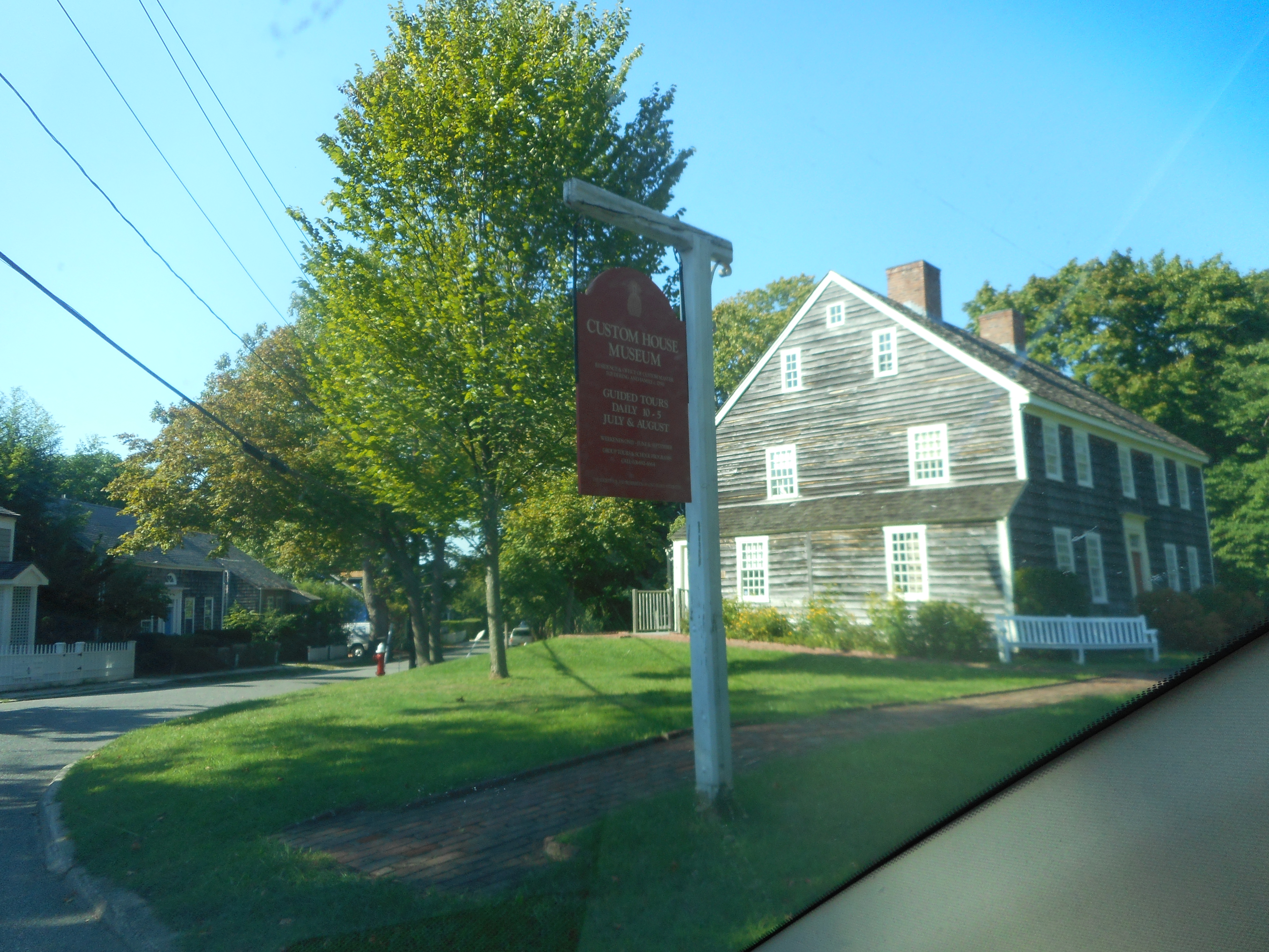 The historic Sag Harbor Customs House. Further details to come later.